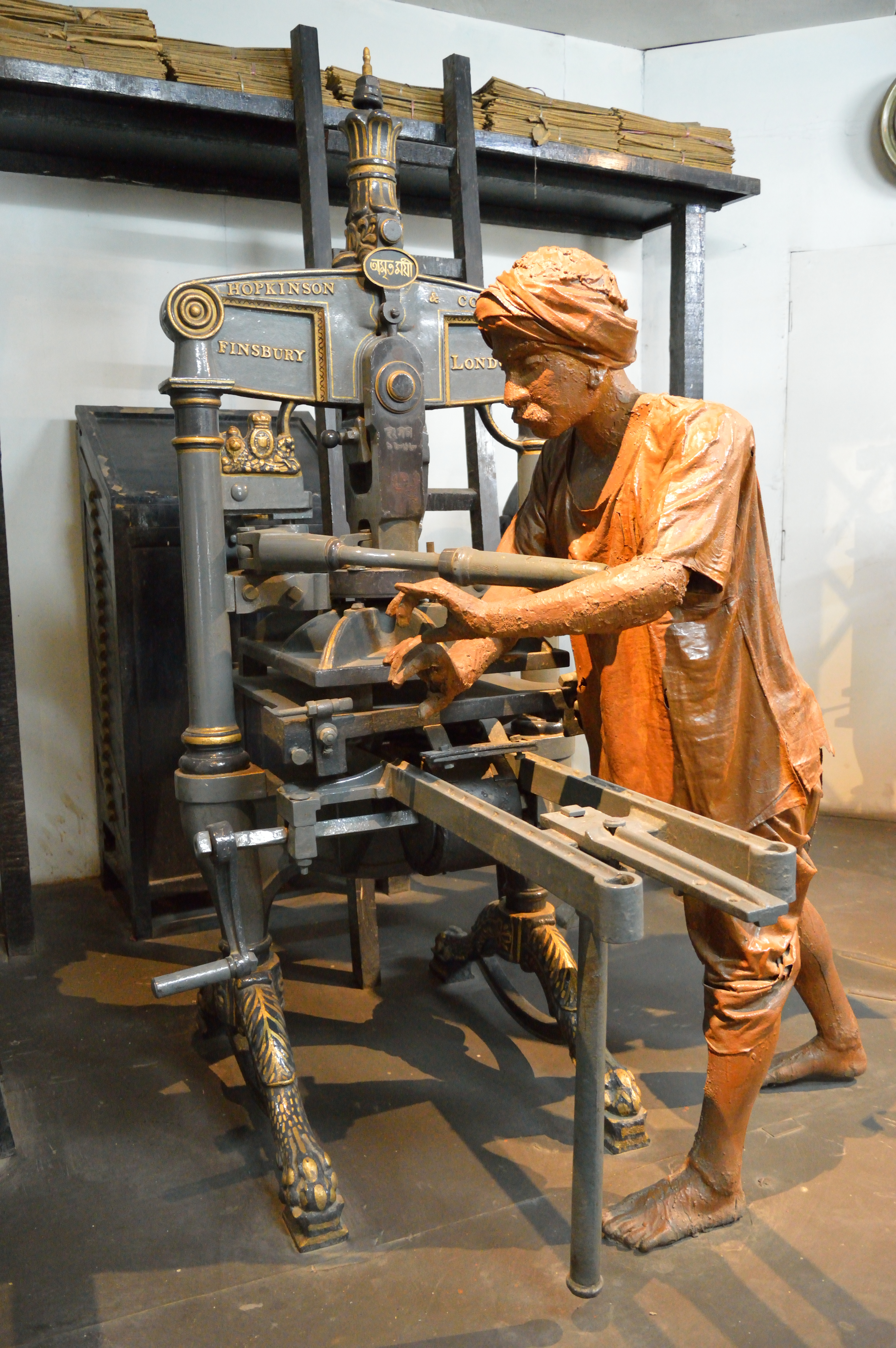 Photographed in New Delhi.